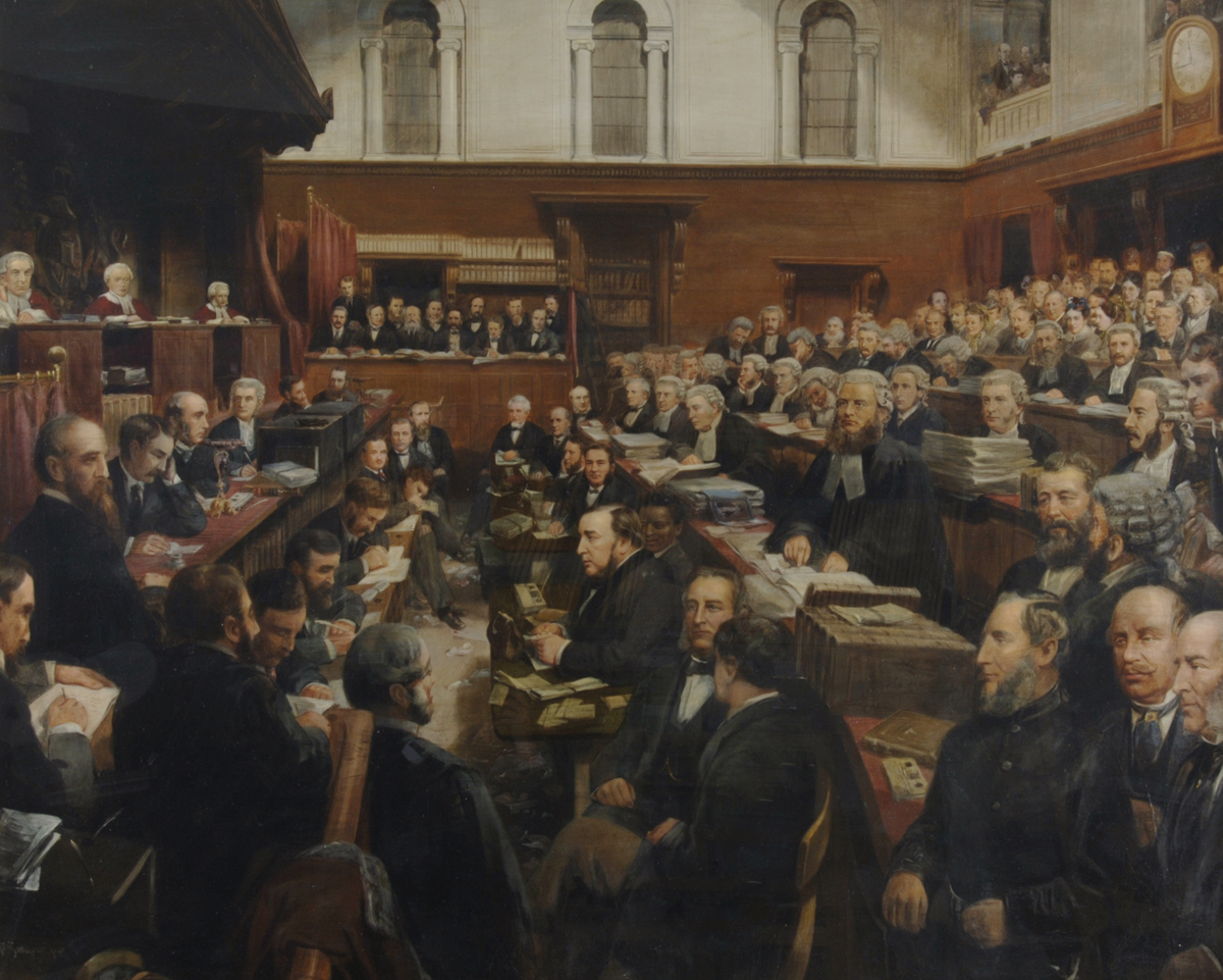 Scene from the Tichborn criminal trial (Regina v. Castro), which took place in 1873–74 at the Court of Queen's Bench, London. The Claimant (probably named Arthur Orton) is the bearded man in the lower centre of the picture, facing left; he is sitting in front of his lawyer, Edward Kenealy, who is leaning against the desk.